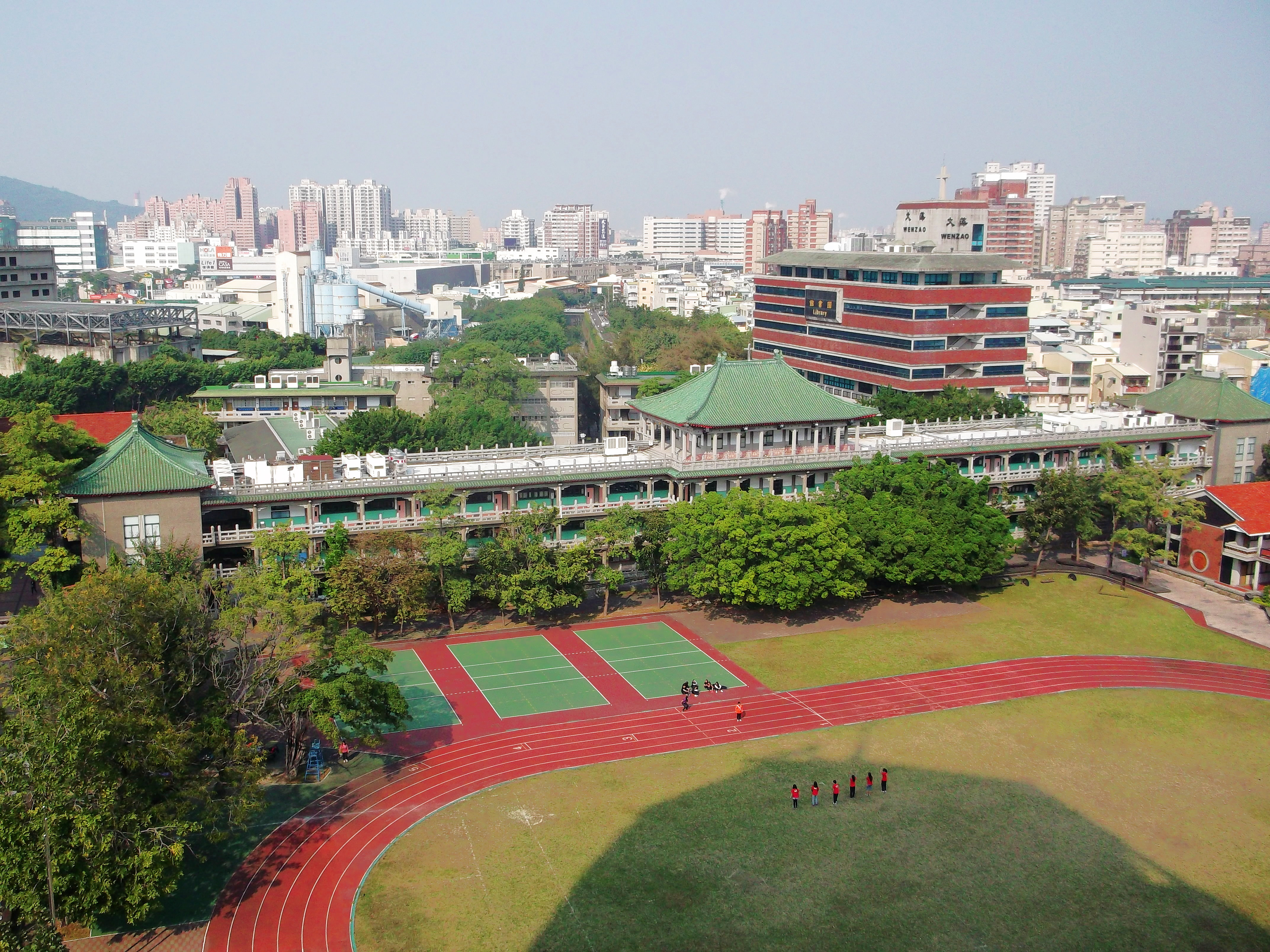 Wenzao College, view of the campus from the Zhishan building